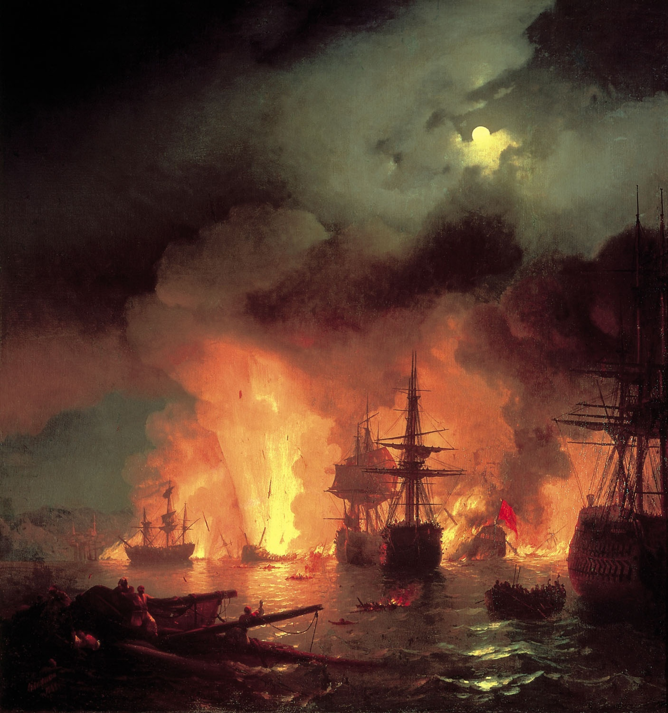 Chesme battle in the night of June 25-26, 1770